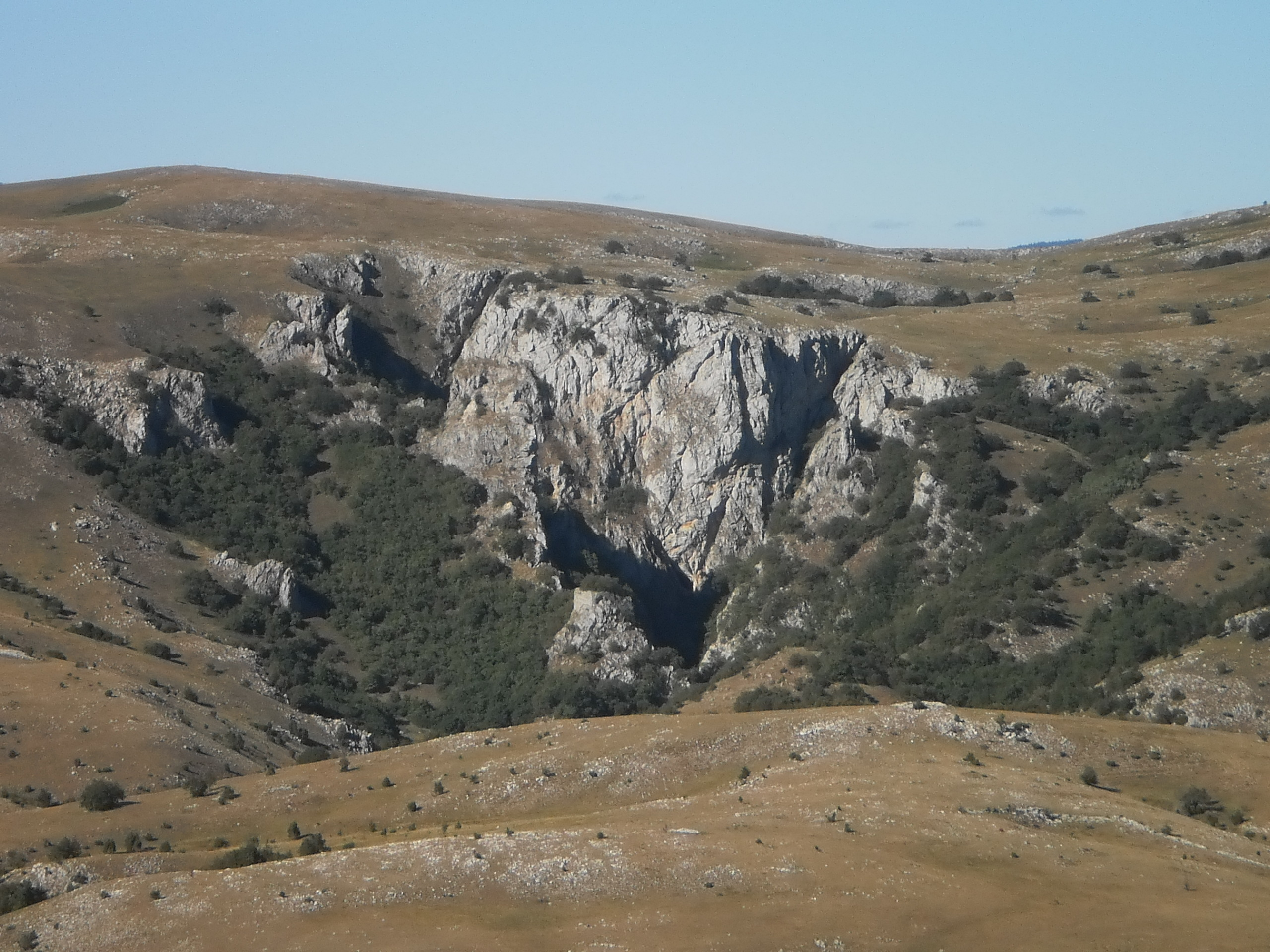 Veliki Stržanj, Šuica